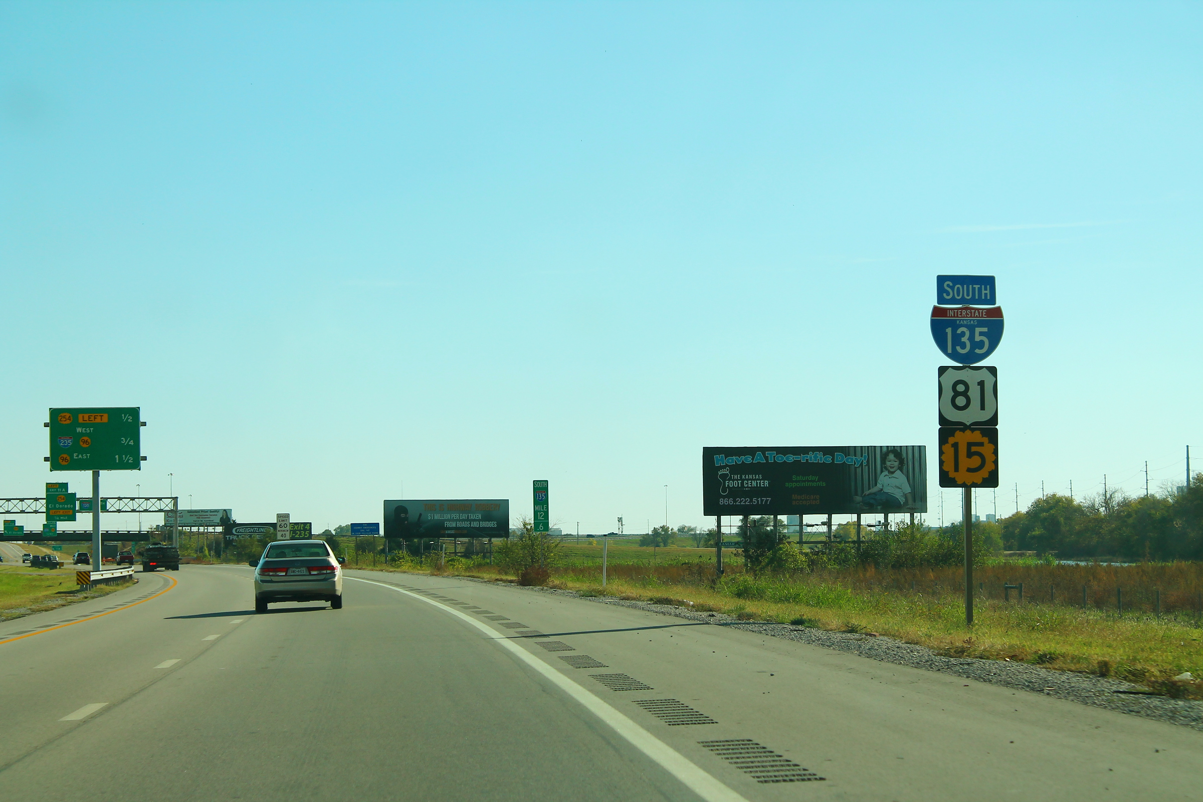 Int135sUS81sKS15sSRoadSigns-MM10